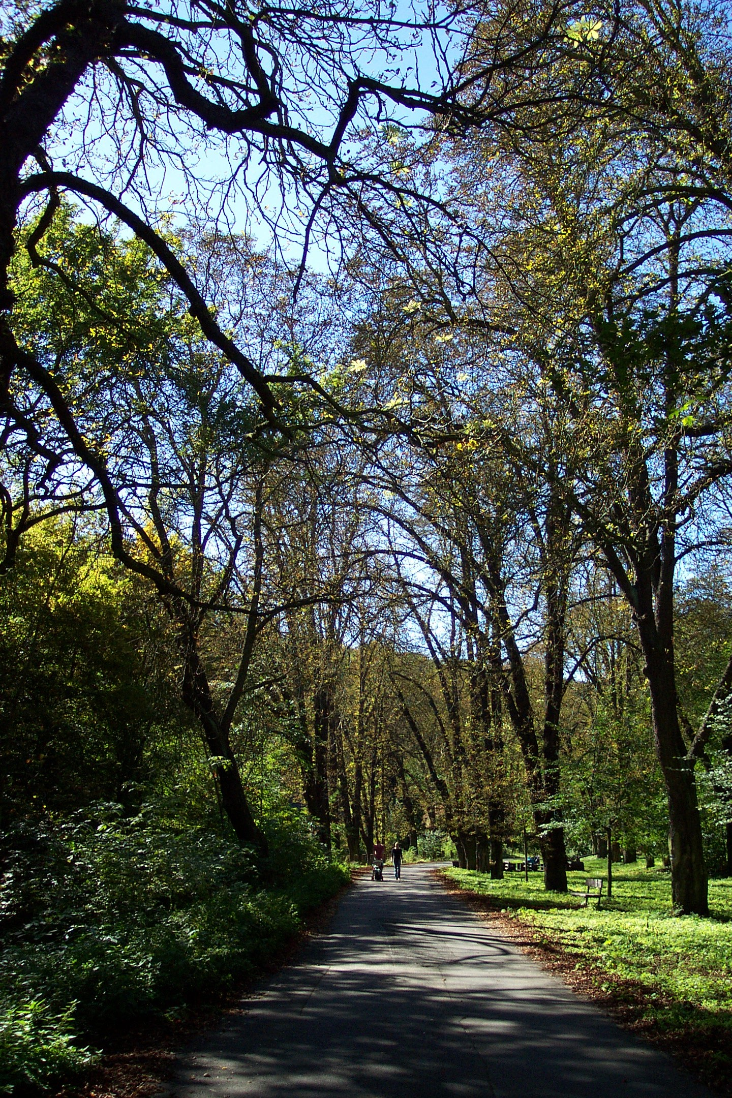 Prokopské údolí valley, Jinonice part. Prague, CZ